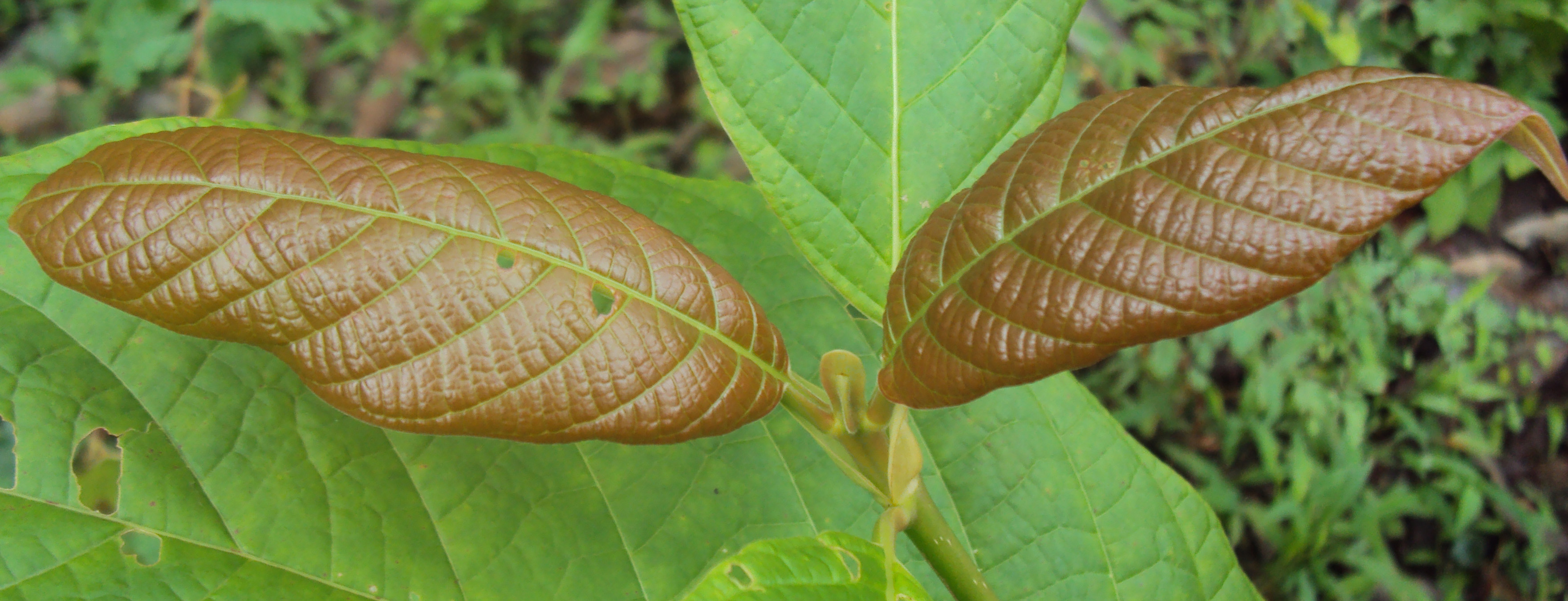 Mitragyna parvifolia